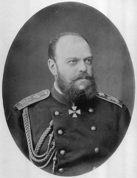 Emperor Alexander III of Russia